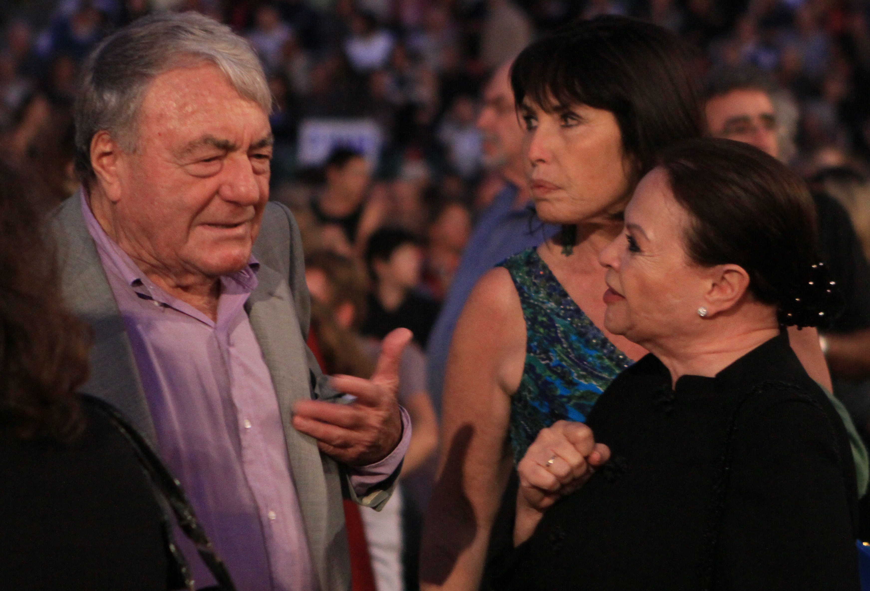 Claude Lanzmann talking with Israeli actress Gila Almagor at the opening evening of 2010 Jerusalem Film Festival